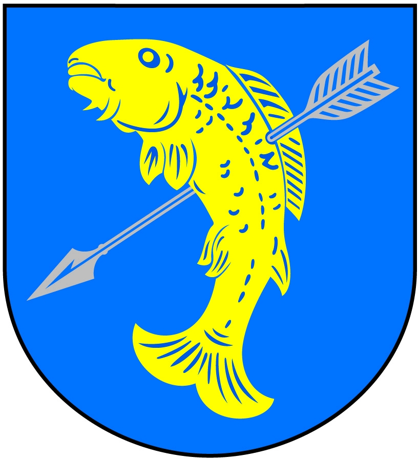 Municipal coat of arms of Častolovice market town, Rychnov nad Kněžnou District, Czech Republic.